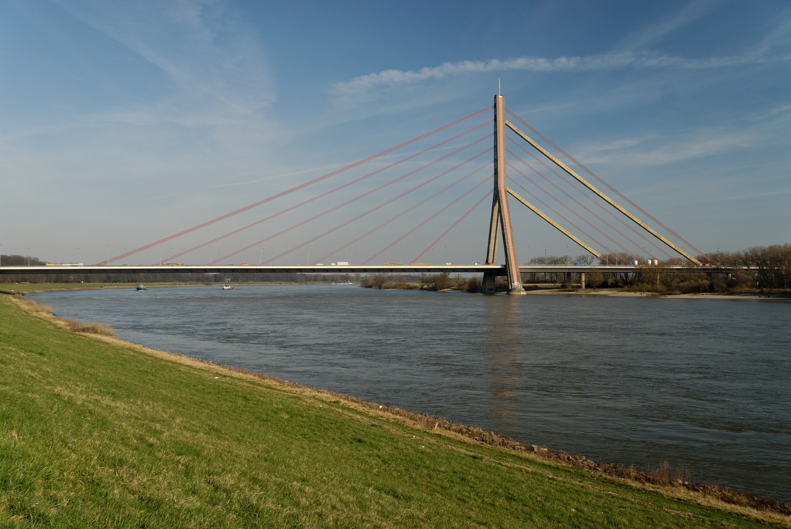 Flehe Bridge between Düsseldorf and Neuss, Germany